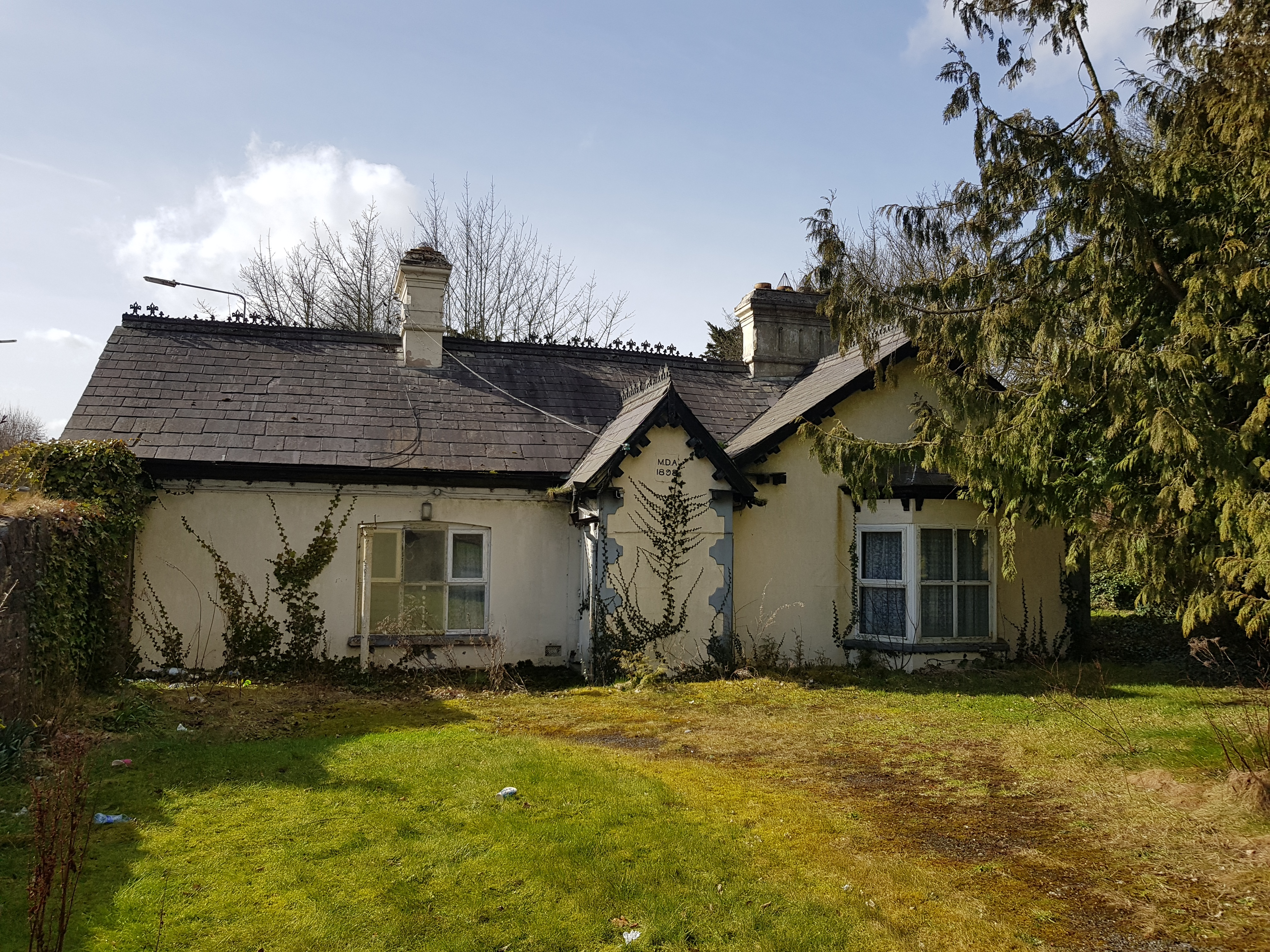 A disused gatehouse near one of two entrances to St. Loman's Hospital in Mullingar, County Westmeath. The building was completed in 1898, and this was possibly after the hospital got an extension in 1895.